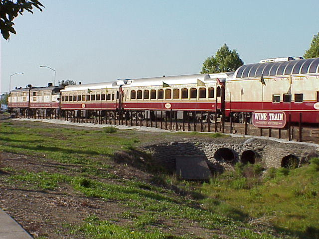 The passenger and observations cars on the Napa Valley Wine Train.